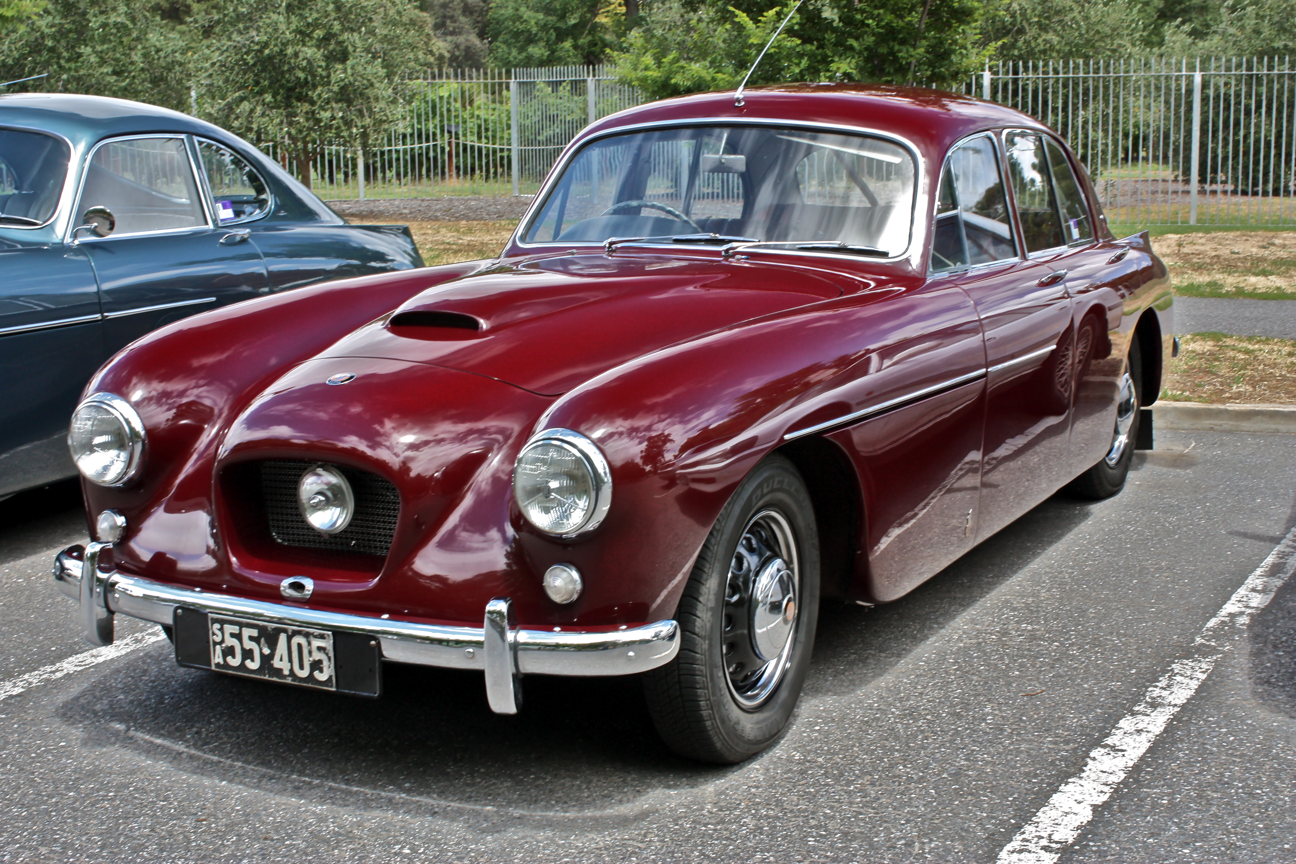 Bristol 405 four door saloon at the Adelaide Botanic Gardens